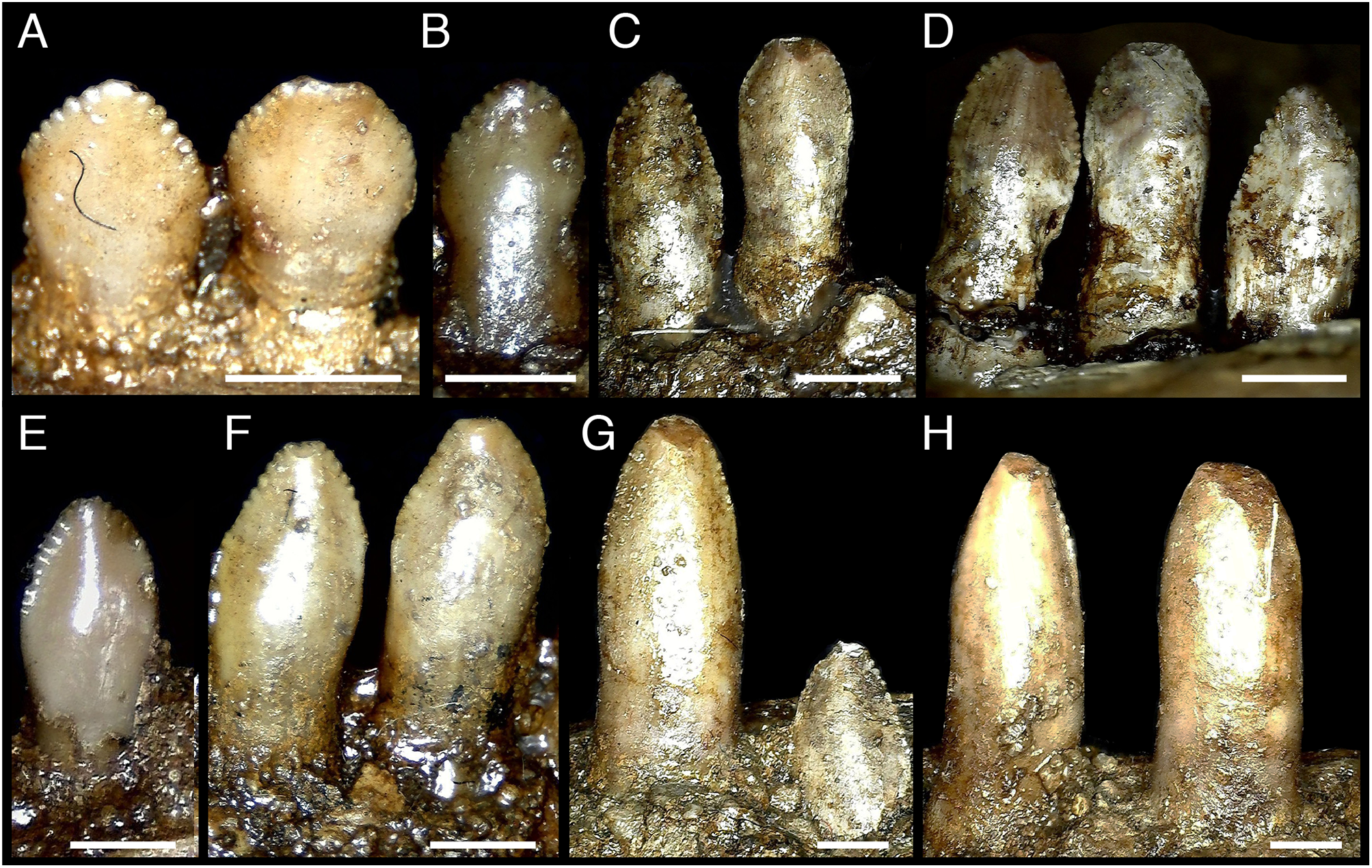 Dentary teeth of Erlikosaurus andrewsi (MPC-D 100/111). (A, B) distalmost dentary teeth, (D–F) more mesial dentary teeth; (G) crowns three and four (counting from midline); (H) crowns one and two. All teeth shown in lingual view. Scale bar 1 mm.